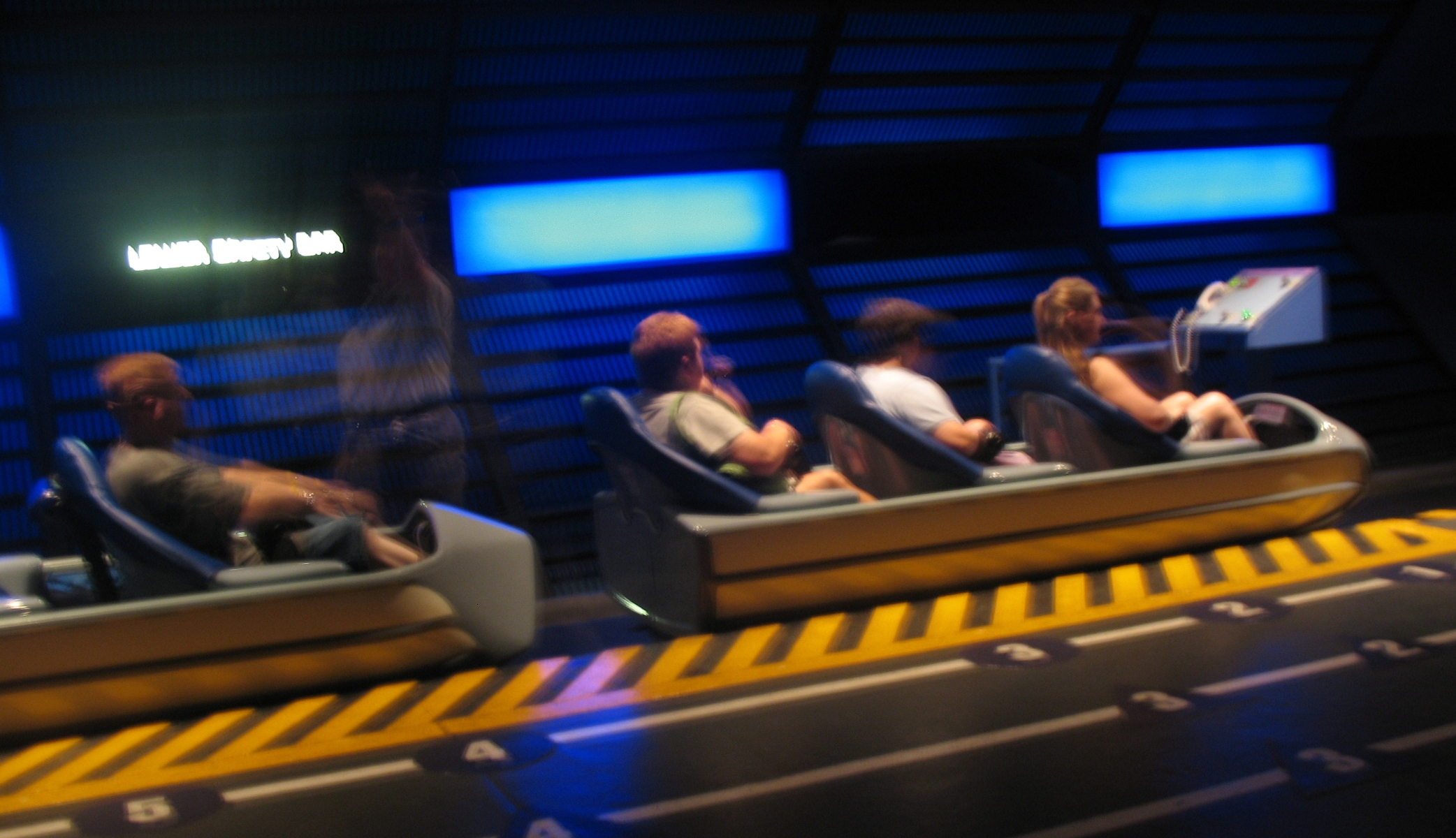 A train on Space Mountain at Walt Disney World's Magic Kingdom. A "ghost" of a cast member is visible in this image. Rather than being talent for the Haunted Mansion, this was actually a result of the long exposure in which the cast member was moving around when the picture was being taken.